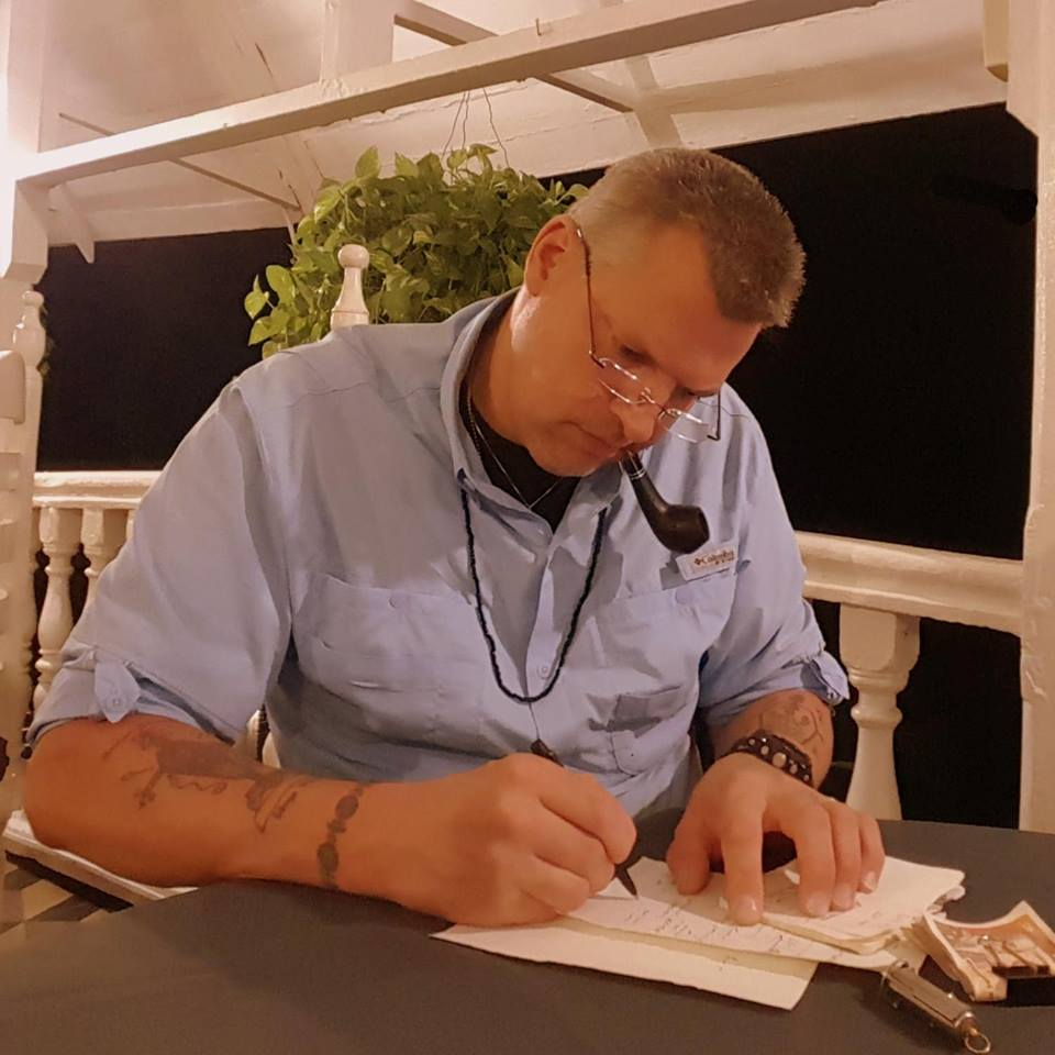 Prof. J. Christopher Kovats-Bernat at work in the Oloffson Hotel. Port-au-Prince, Haiti (2016).